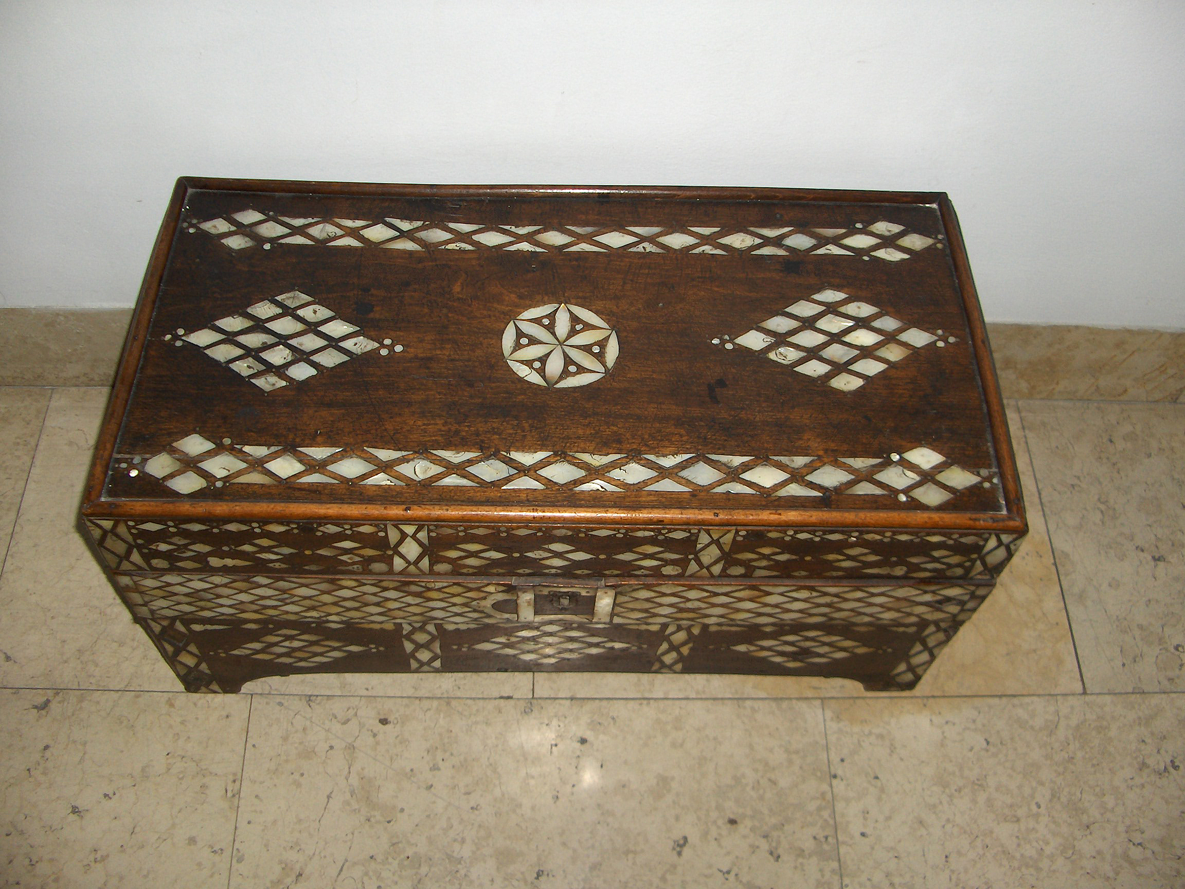 A chest in the Etnographic Museum of Zagreb, Croatia